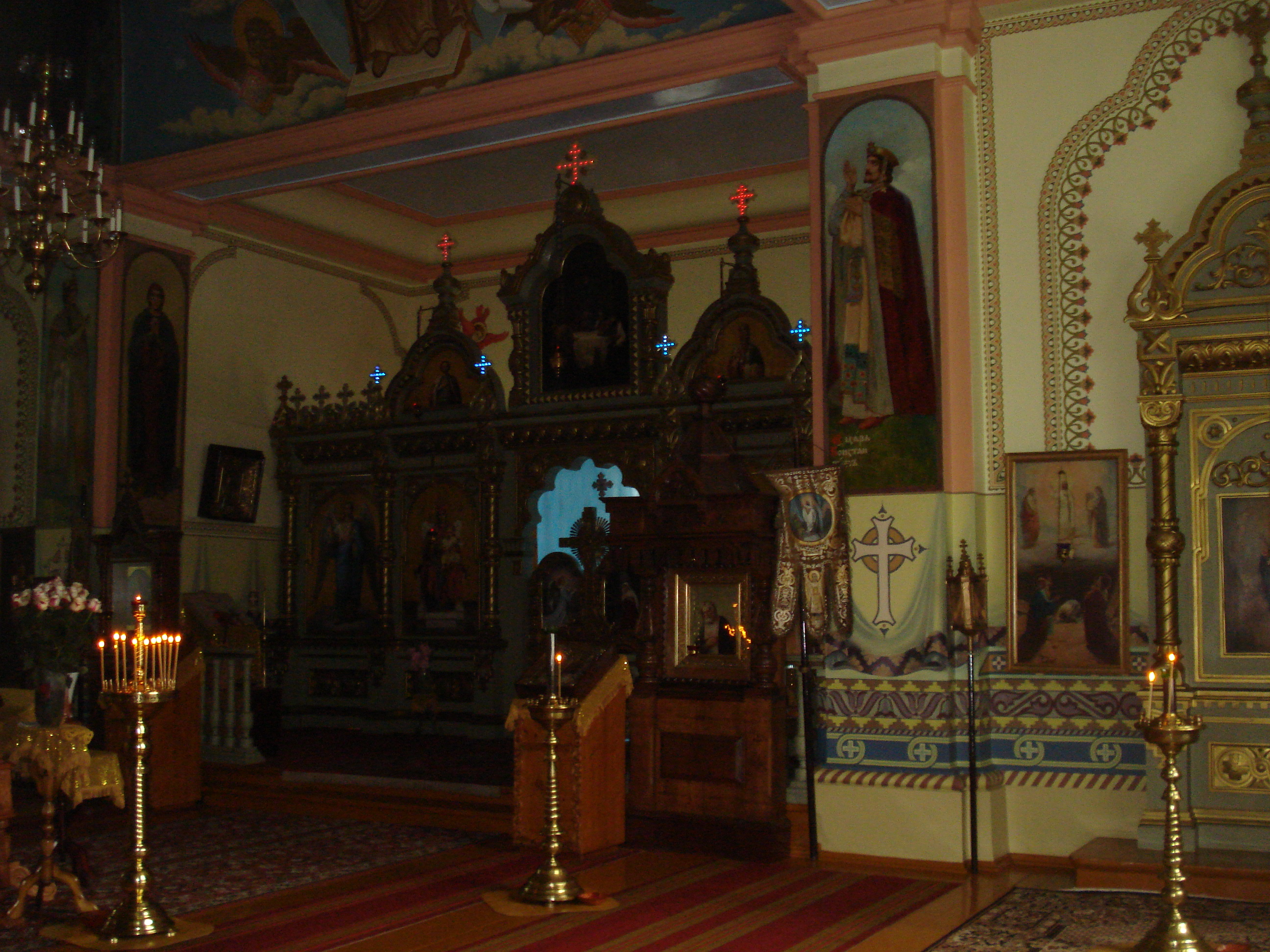 The russian orthodox Holy Transfiguration Church in Kėdainiai, Lithuania. Inside